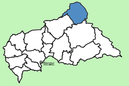 Map showing location of Vakaga_Prefecture in Central African Republic